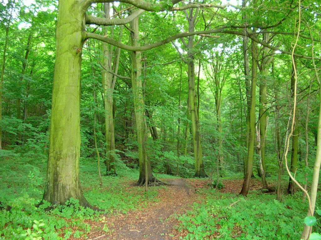 Nature reserve Las Mariański